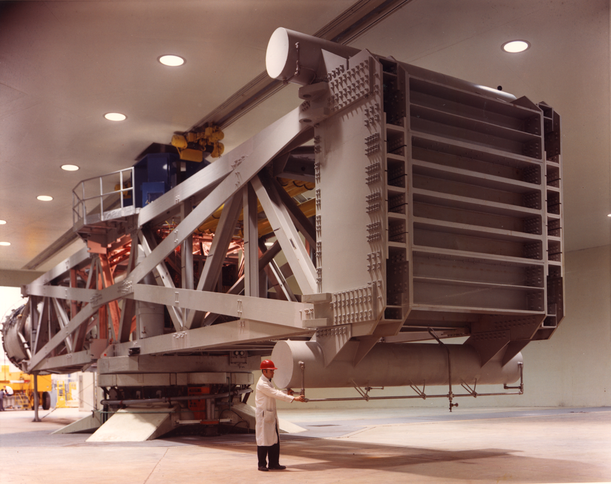 Goddard's Launch Phase Simulator or High-Capacity Centrifuge simulates vibration, G-forces and changing pressures that a spacecraft would encounter during launch and landing. To perform a test, which typically lasts one day, technicians place spacecraft components and even entire satellites in either the simulator's cylindrical test chamber (at the far left in this photo) or on its test platform at the other end (it was not installed when this photo was taken). Powered by two 1,250-horsepower motors, the facility then spins at up to 38.3 revolutions per minute to simulate a 30-g environment. (Most people experience about 2-g when they ride on a roller coaster.) Engineers monitor test results from an adjacent control room.